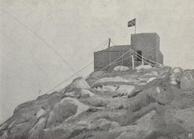 The simple northern light observatory at Halddetoppen where Birkeland and his assistants lived in the winter of 1899-1900. From the book, The Norwegian Aurora Polaris Expedition 1902-1903, Volume 1: On the Cause of Magnetic Storms and The Origin of Terrestrial Magnetism, Section 2. Chapter VI: p. 6